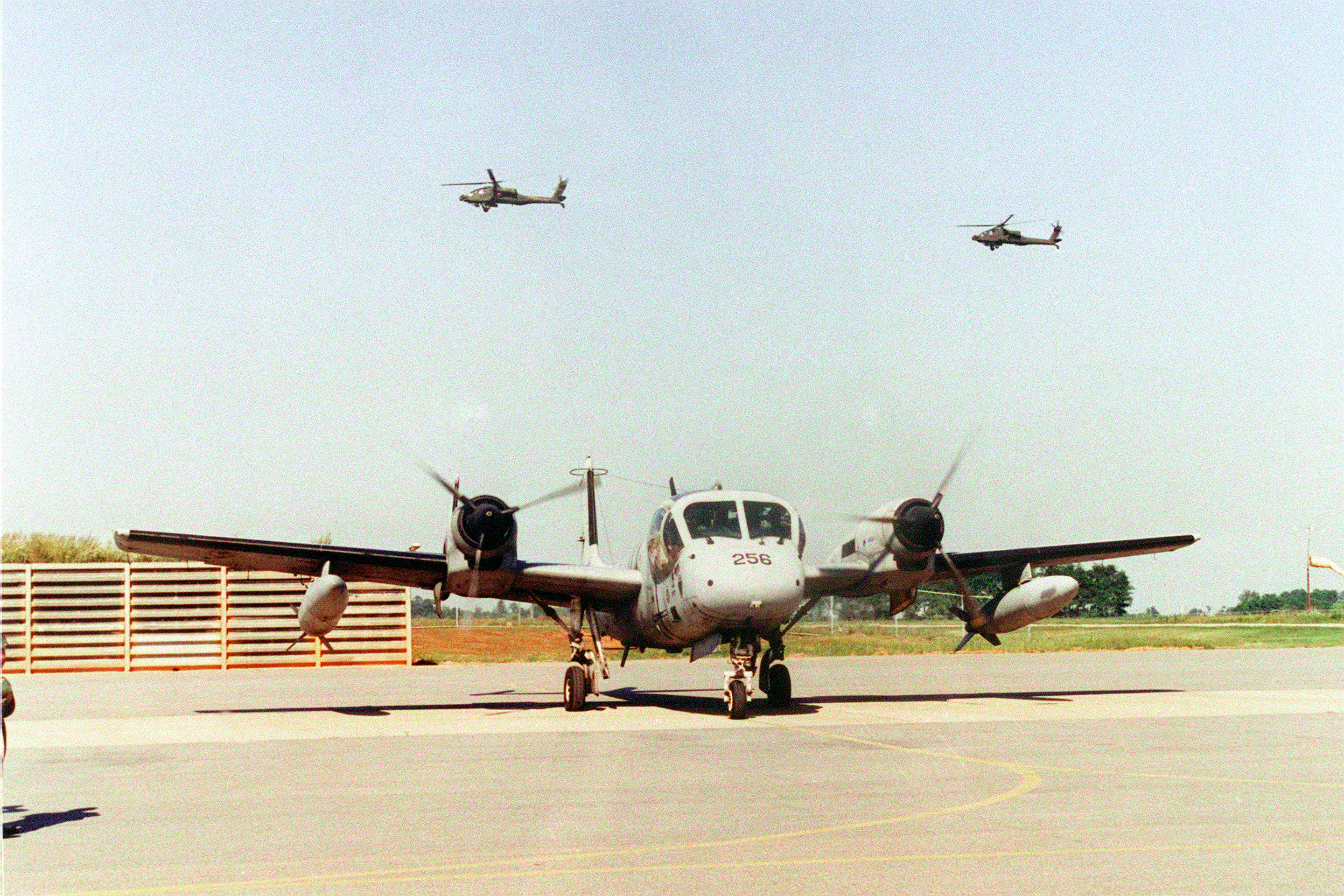 The retirement of the Mohawk: CP Humphreys.Lt. Gen. Richard F. Timmons, Commanding General, 8th US Army, takes the OV-1D Mohawk Surveillance Aircraft on its last flight. Two AH-64 Apache helicopters can be seen flying in the background. Location: CAMP HUMPHREYS, GYEONGGI-DO REPUBLIC OF KOREA (KOR)